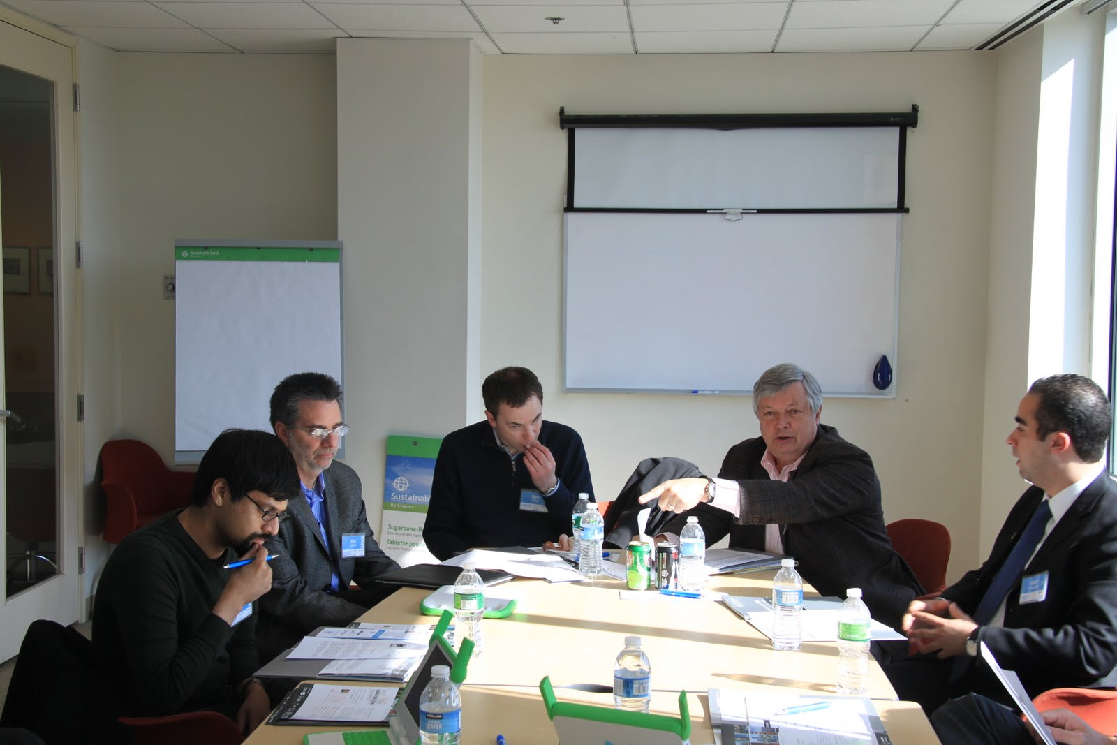 Hult Global Challenge